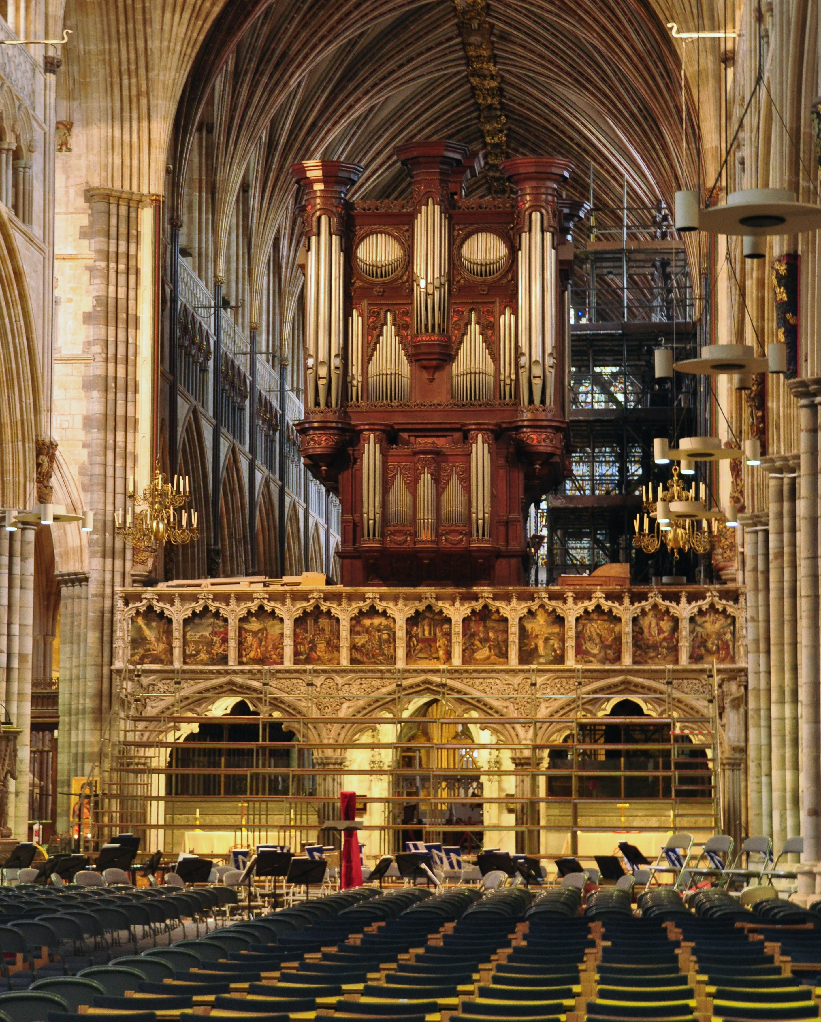 The organ in Exeter Cathedral in Devon.